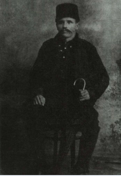 Pancho Tsagarski - Stamen Panchev's father and Mayor of Orchanie